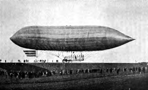 Airship Aeolus 1872